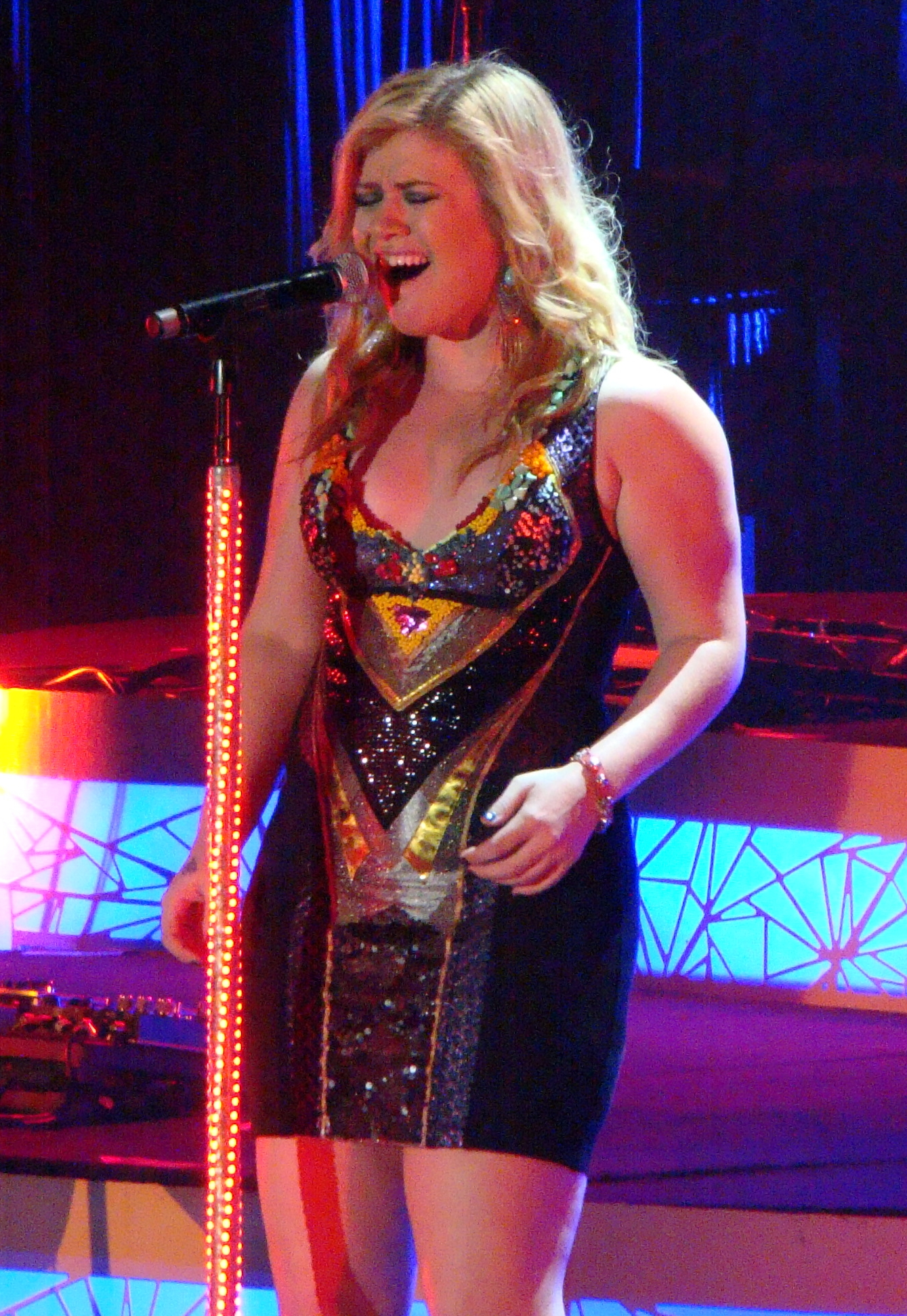 Kelly Clarkson performing live, October 12 2012 in Manchester, England, GB